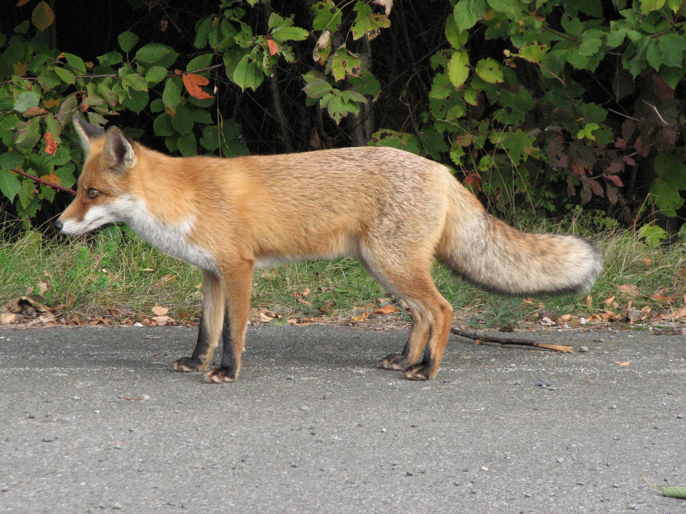 Fox's profile